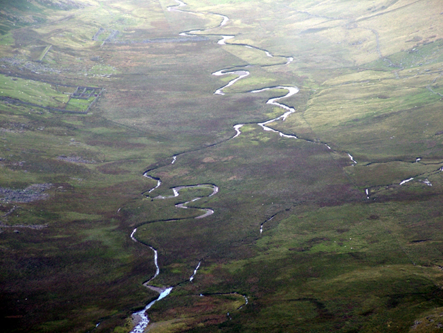 Afon Eigiau. Nice bit of meandering here. All the structures are from slate quarrying in times gone by.